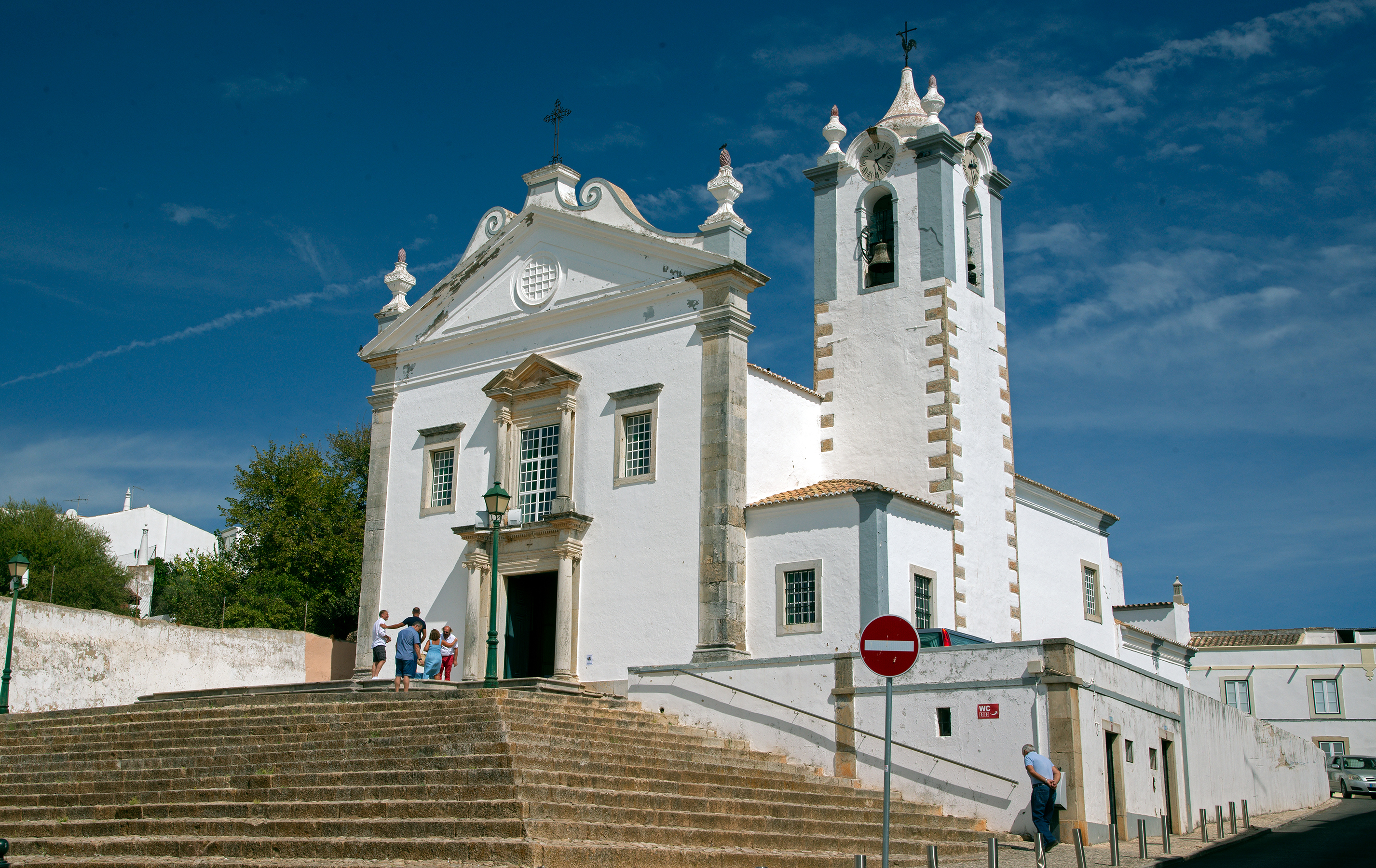 Igreja Matriz de Estoi, Portugal , 2019